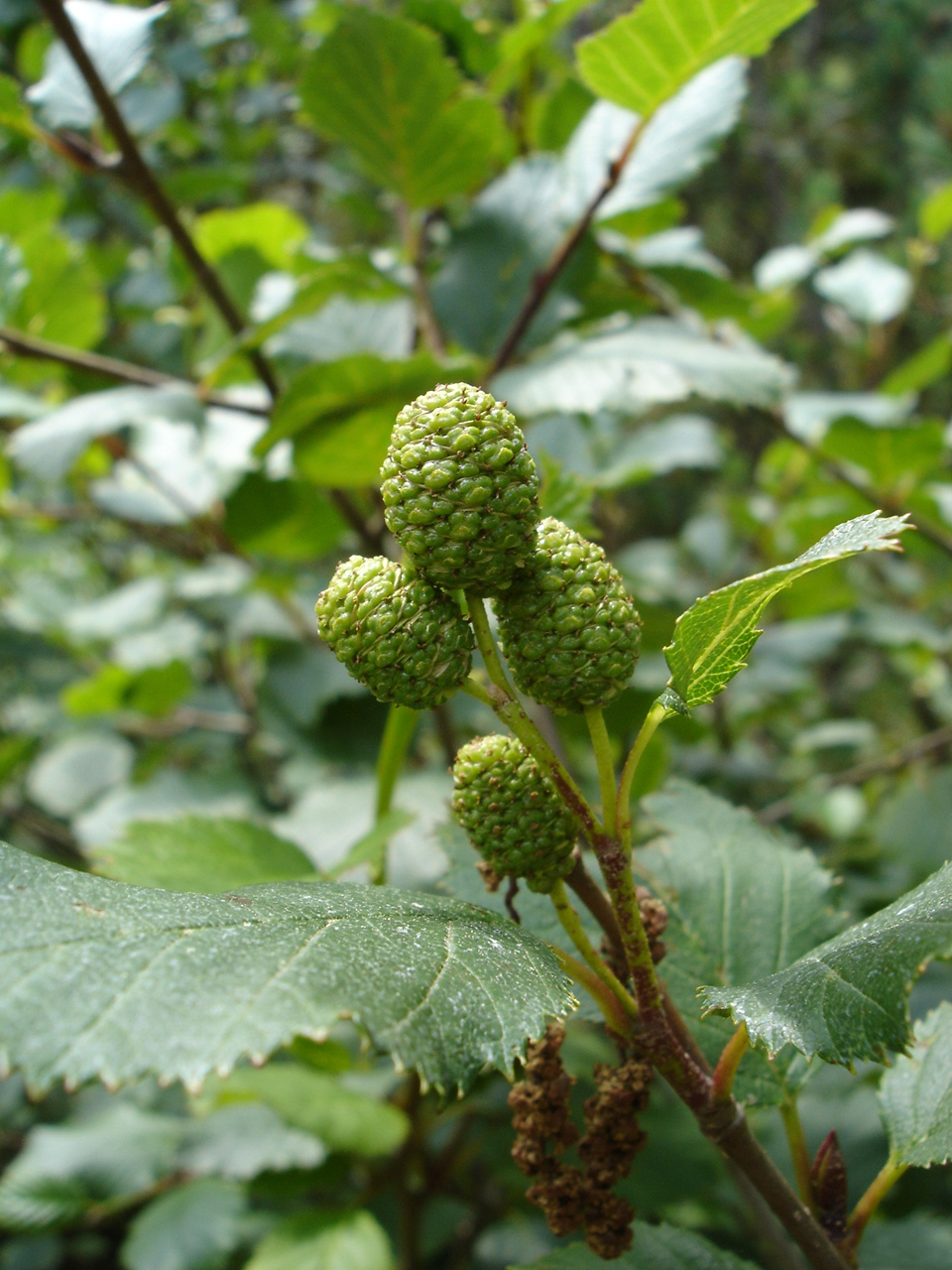 Alnus viridis subsp. viridis fruit, Bulgaria.